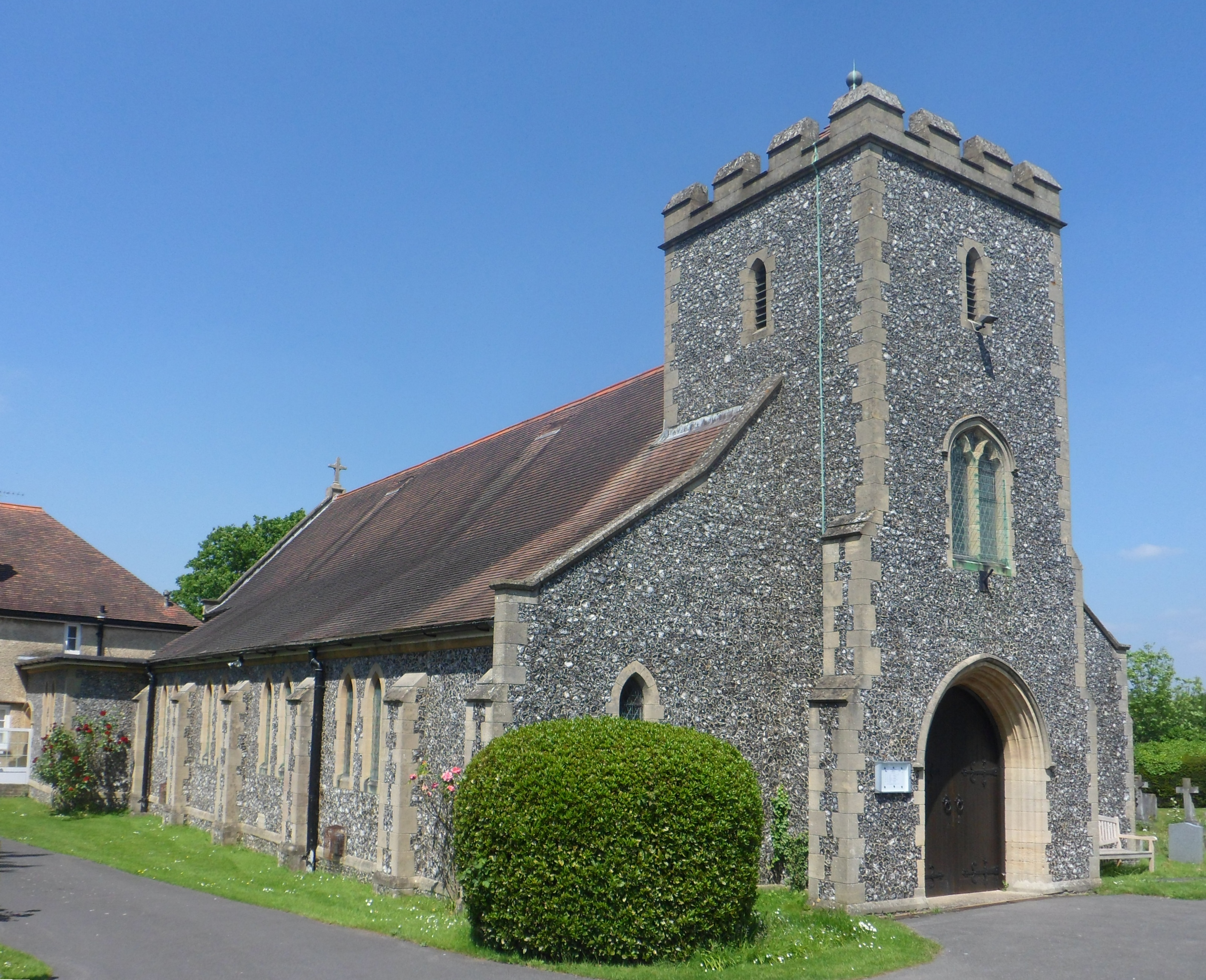 Church of Our Lady of Sorrows, Lower Road, Effingham, Borough of Guildford, Surrey, England.